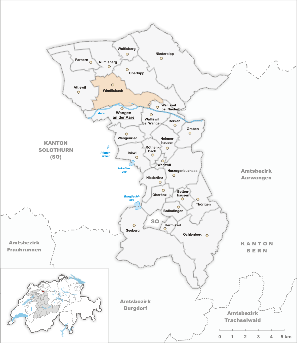 Municipality Wiedlisbach